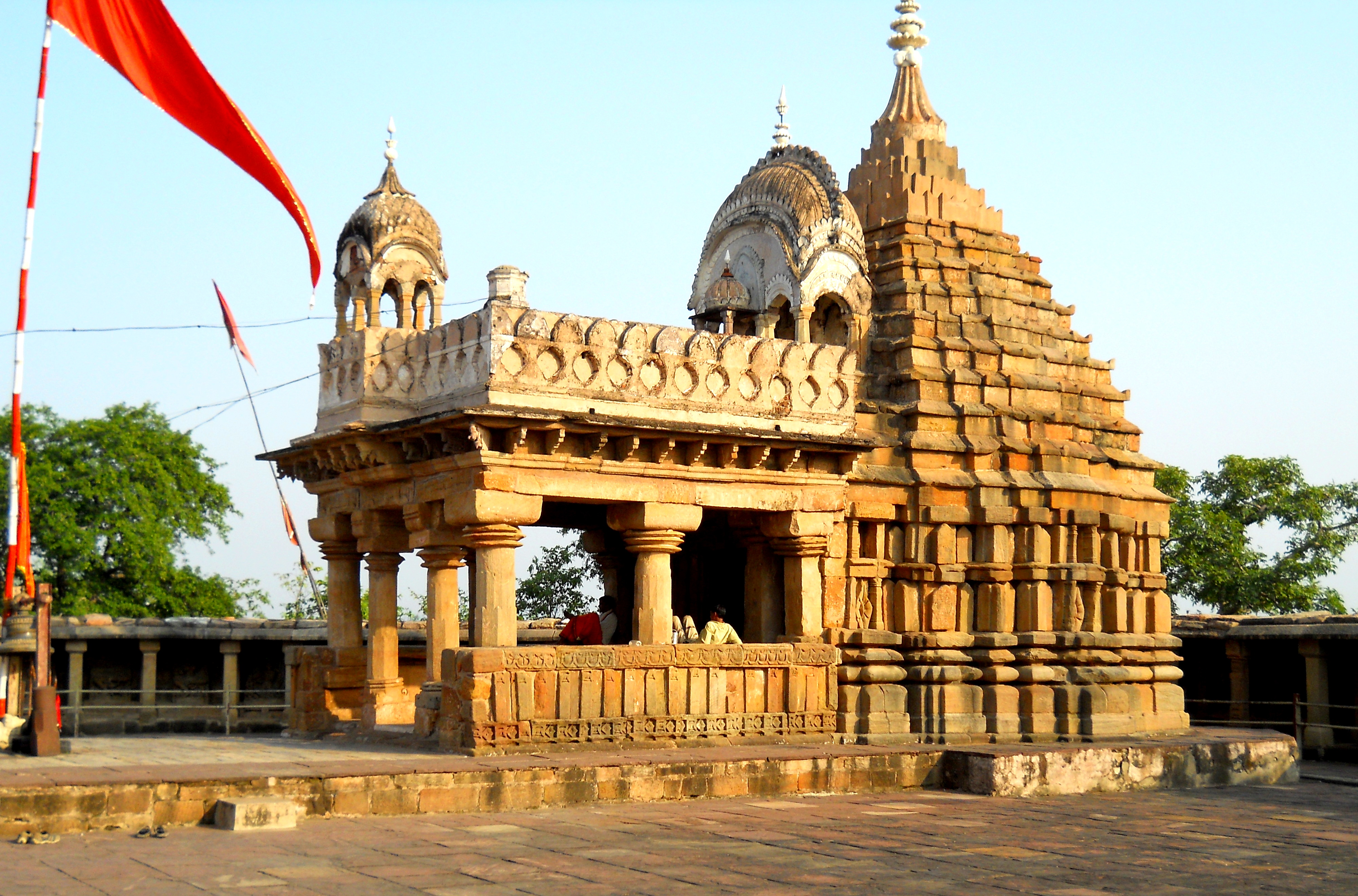 Temple of Chausath Yogini